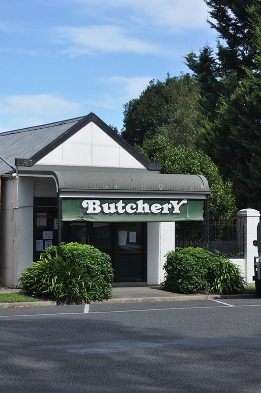 Webster's Butchery in Yinnar, Victoria, Australia.